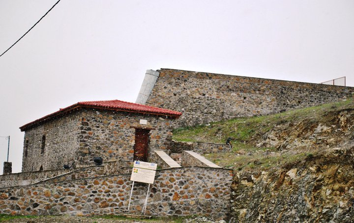 Perivoli Domokou